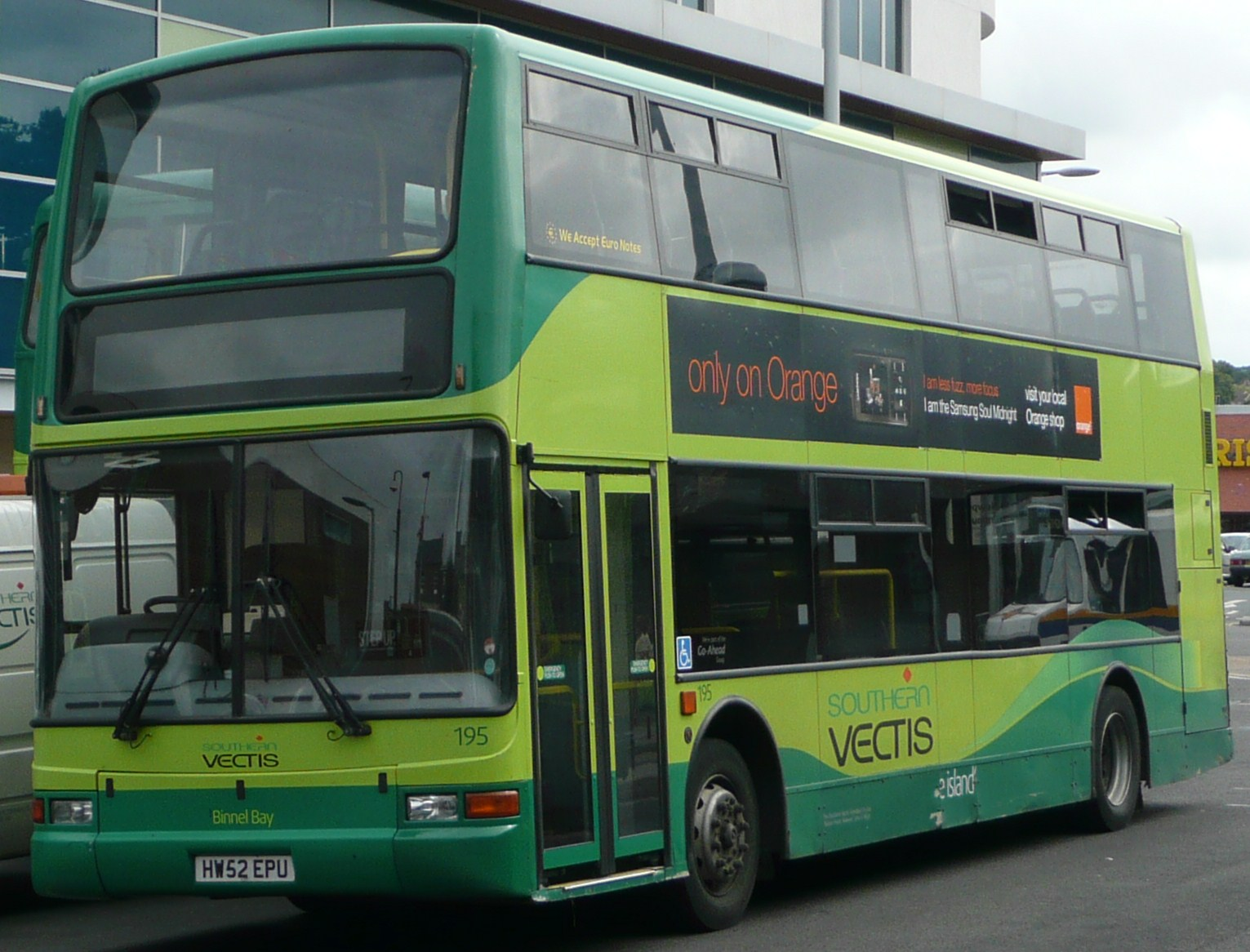 Southern Vectis 195 Binnel Bay (HW52 EPU), a Volvo B7TL/Plaxton President, in Newport, Isle of Wight, bus station laying over between duties.